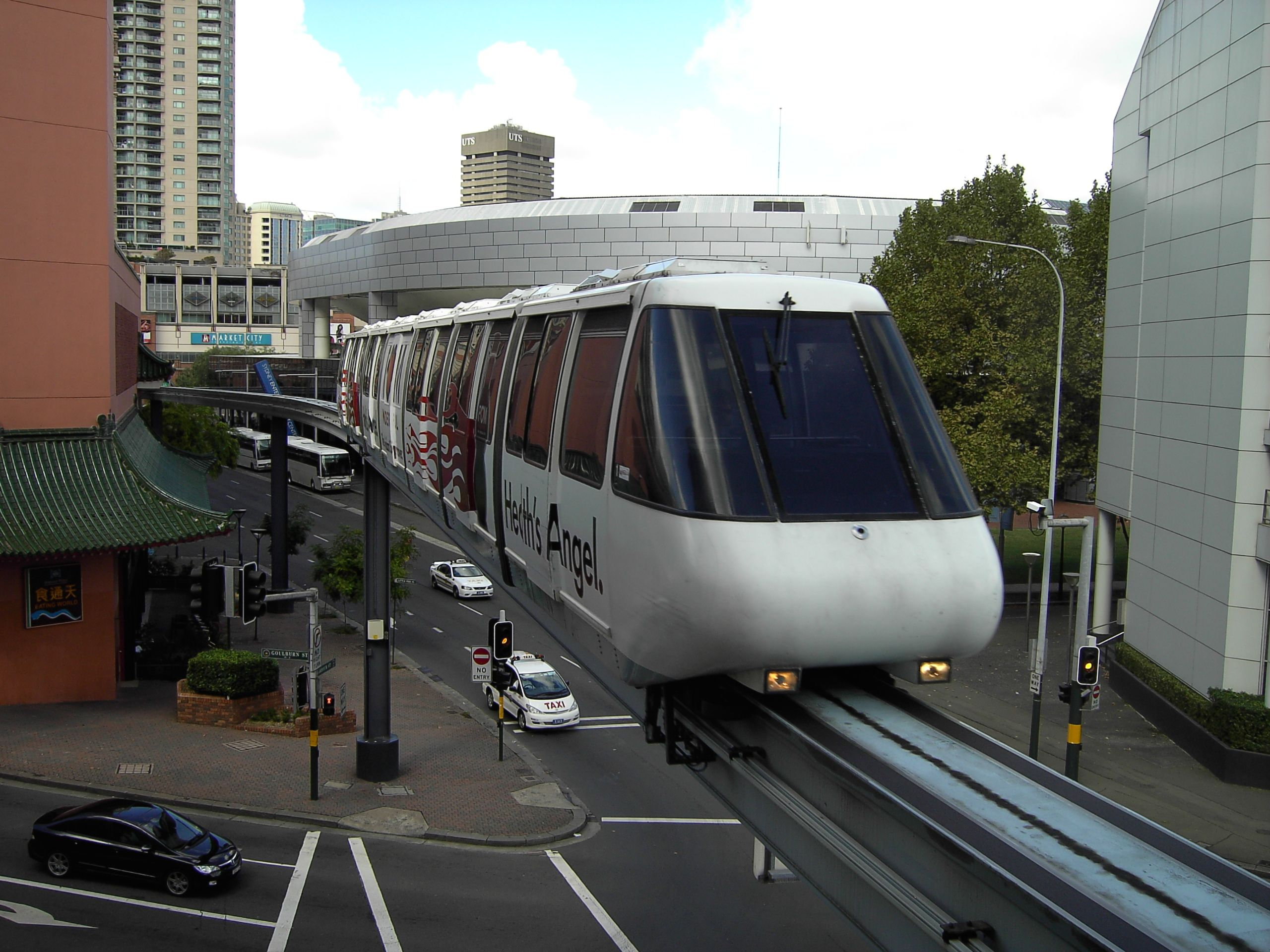 Sydney Monorail